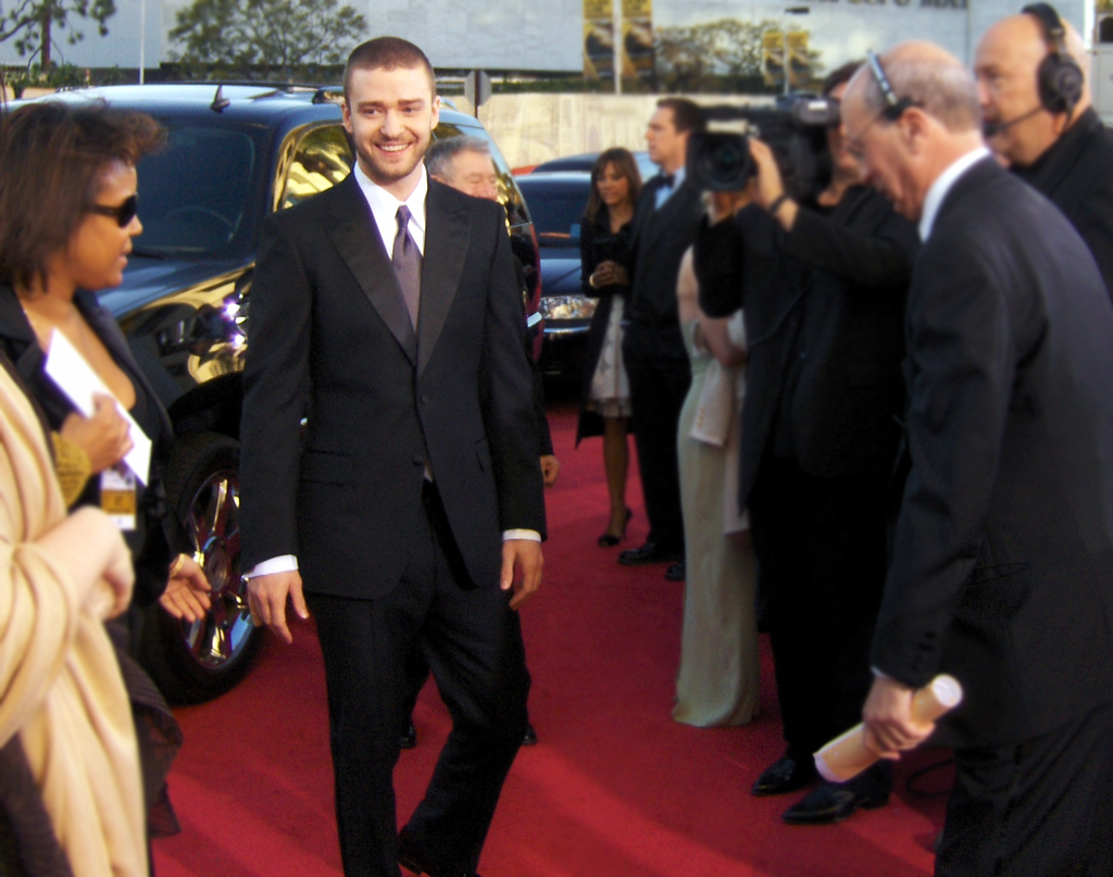 Justin Timberlake arriving at the 2007 Golden Globes.